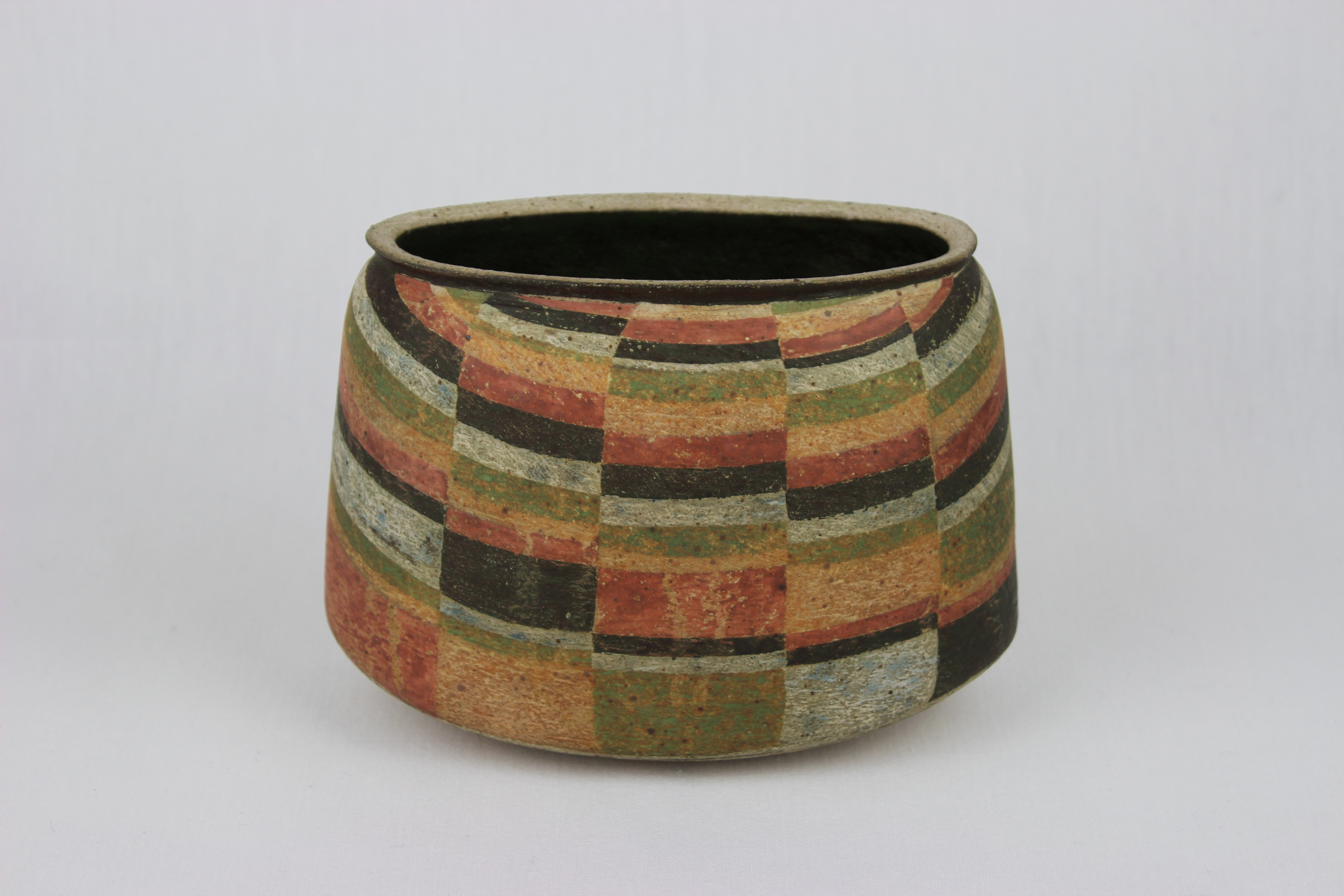 Oval pot with colourful fracture pattern. From the W.A. Ismay Studio Ceramics Collection at York Art Gallery